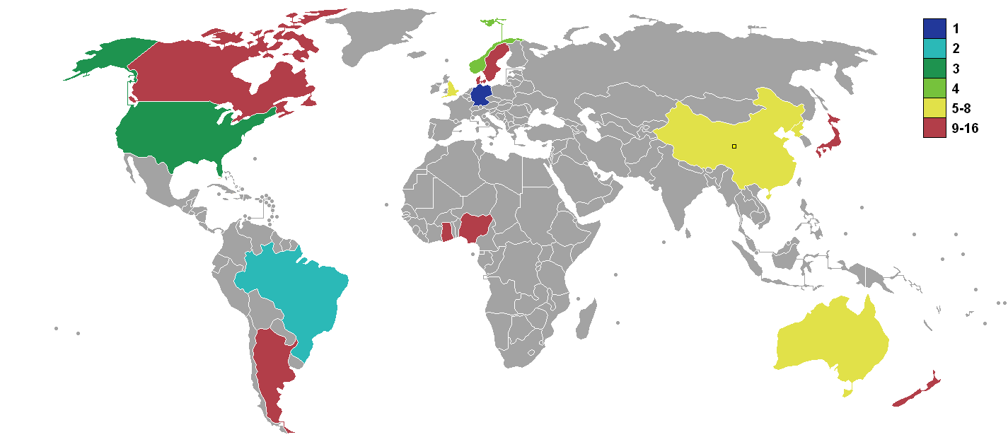 Final rankings of the teams on FIFA Womens World Cup 2007, showing: winner = dark blue runner-up = light blue third = dark green fourth = light green quarterfinals = yellow group stage = red yellow square = host nation (China)